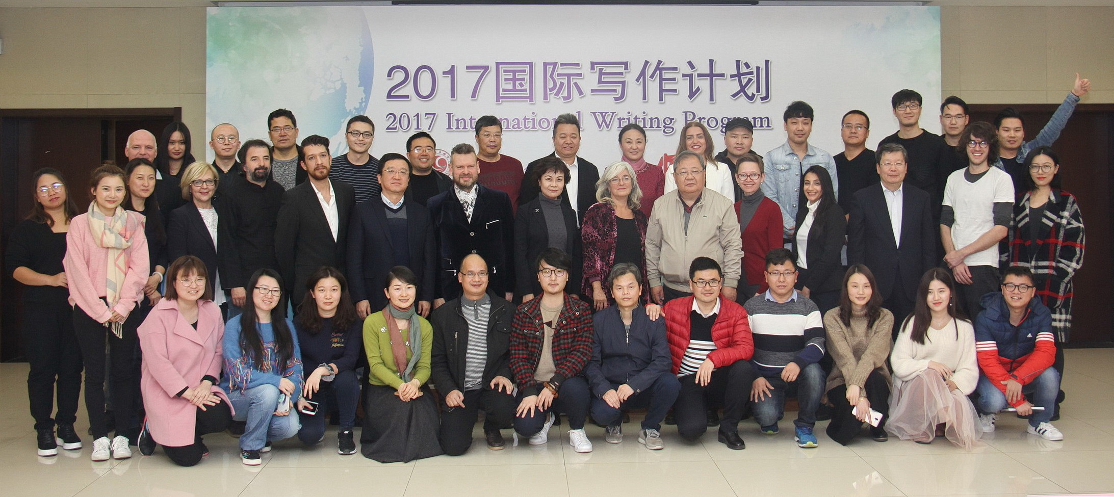 Jidi Majia, Tie Ning, J.Pijarowski, Nurduran Durman during opening ceremony of the1-st International Writing Program in Beijing 2017.